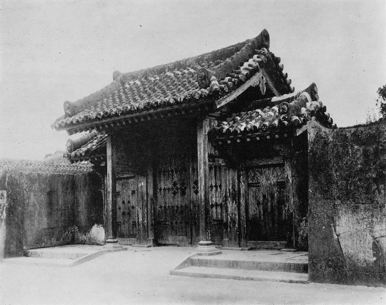 The main gate of Nakagusuku Udun (Palace)